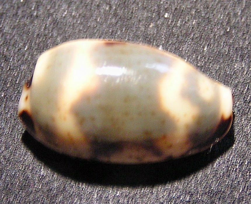 Bistolida kieneri depriesteri Schilder, 1933 ; a cowry in the family Cypraeidae; Philippines